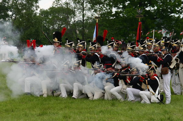 Reconstruction(2006) of Battle of Raszyn(1809)